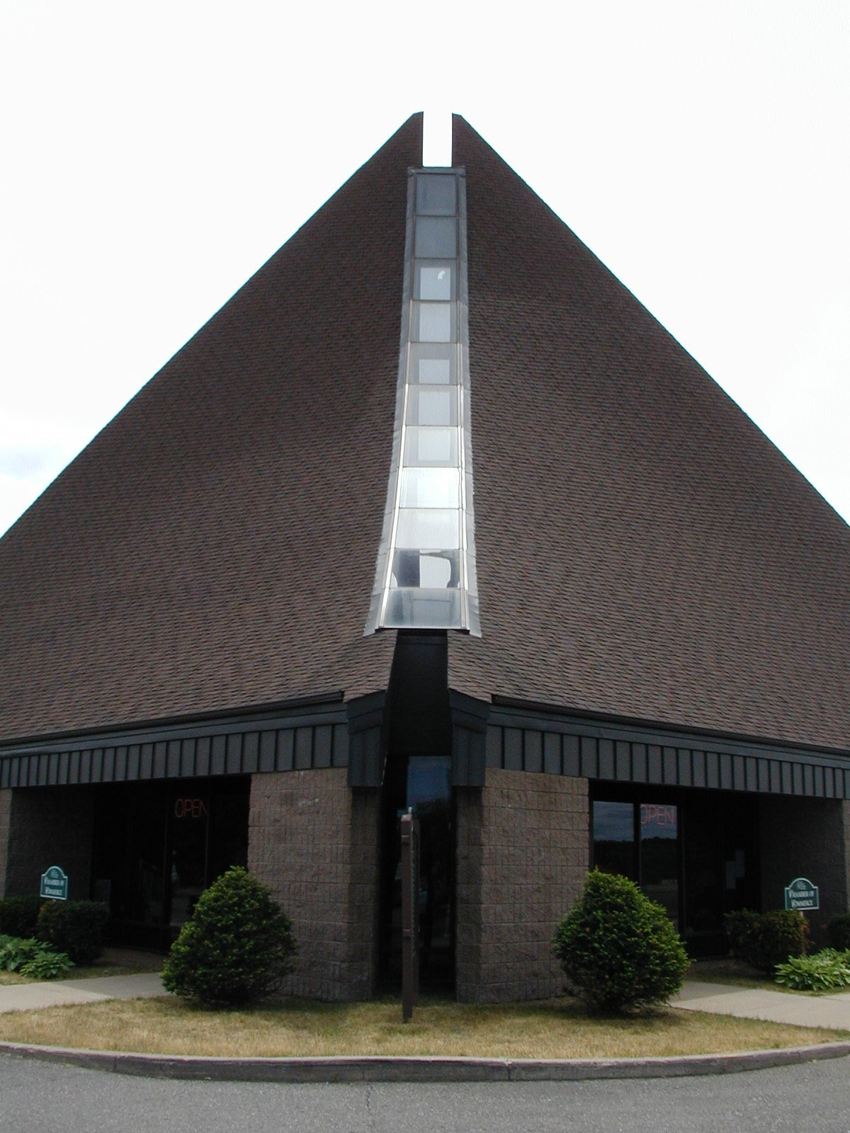 National Ski Hall of Fame located in Ishpeming, MI, front view in 2003